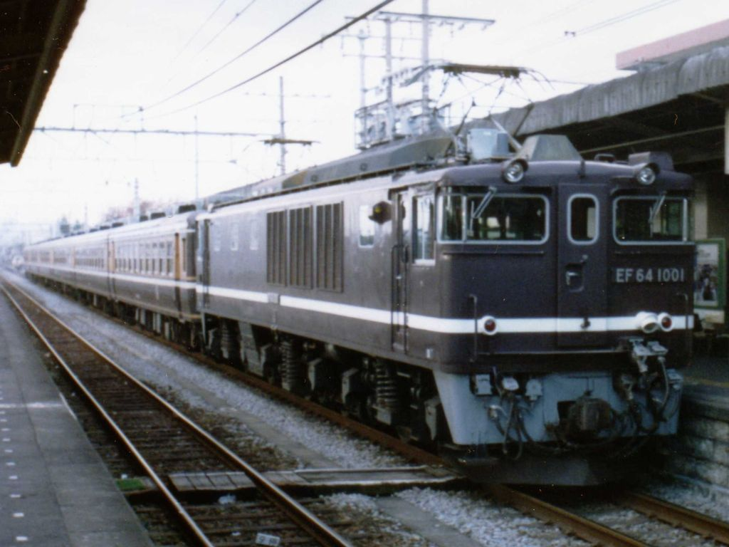 Electric locomotive Series EF64 No.1001 of East Japan Railway.